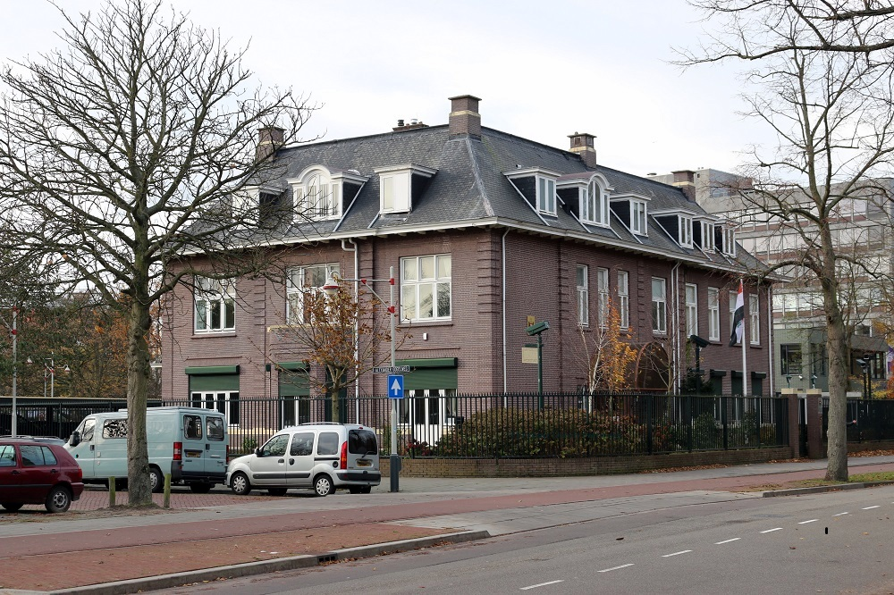 Embassy of Iraq in The Hague, Holland, Nov. 2016 -- Photo by Persian Dutch Network (